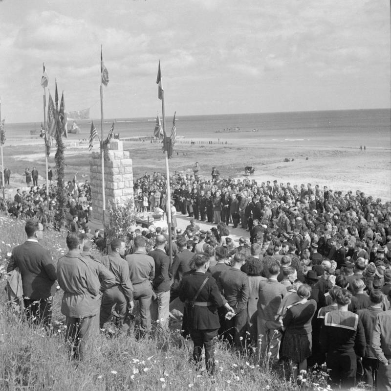 Ceremonies To Mark the First Anniversary of D-day Crowds gather round the memorial to United States troops on Omaha Beach, Saint-Laurent-sur-Mer, during a service to commemorate the 1944 landings.